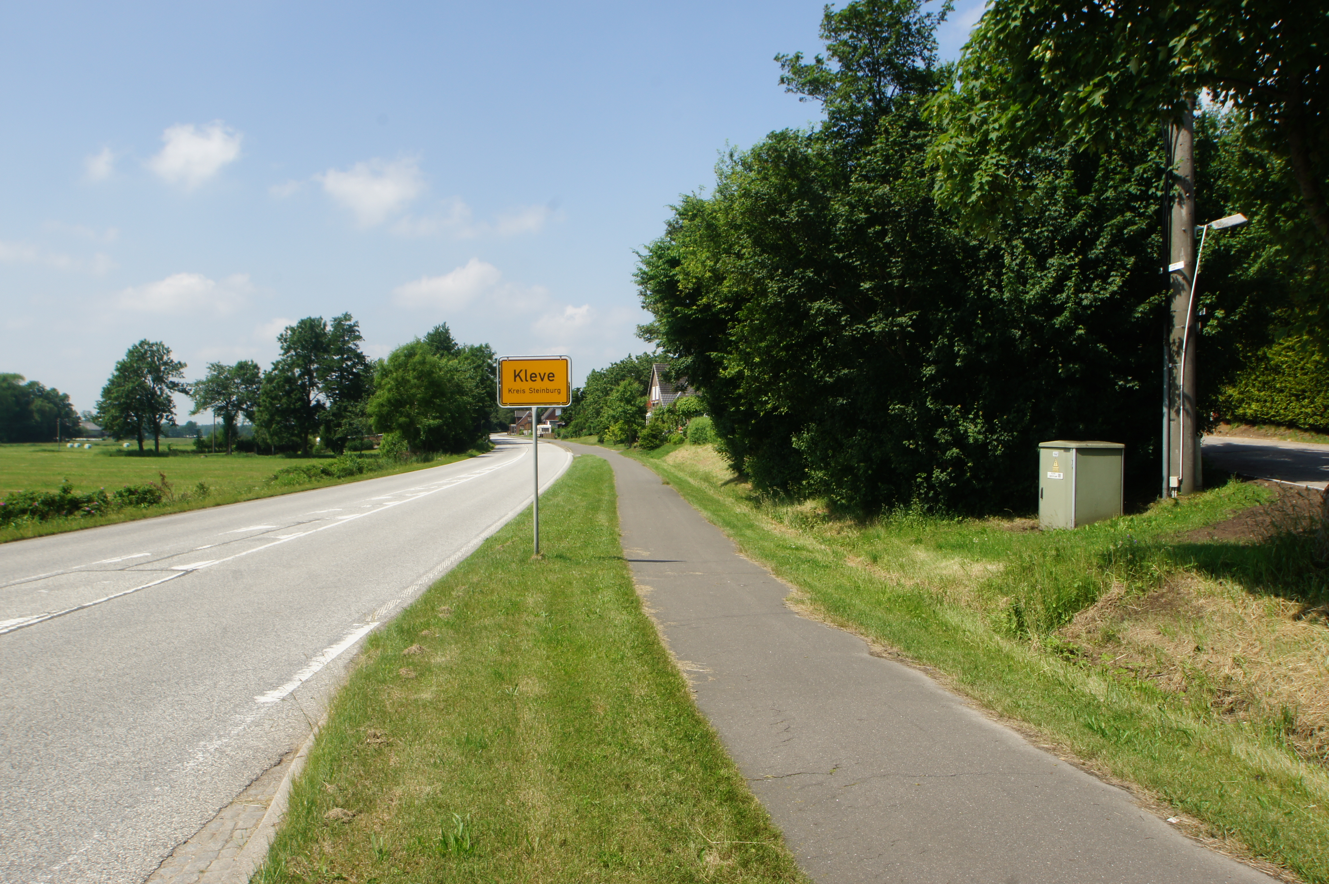 Kleve (Steinburg), Germany: High Street